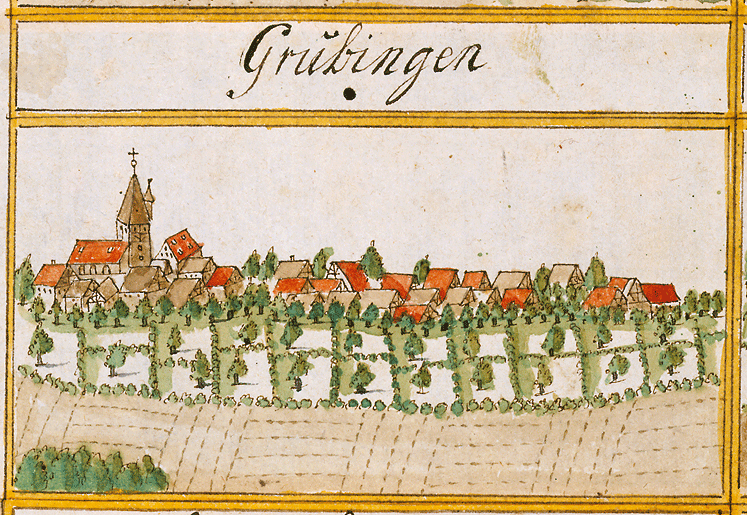 View of Gruibingen from the forest register books created by Andreas Kieser